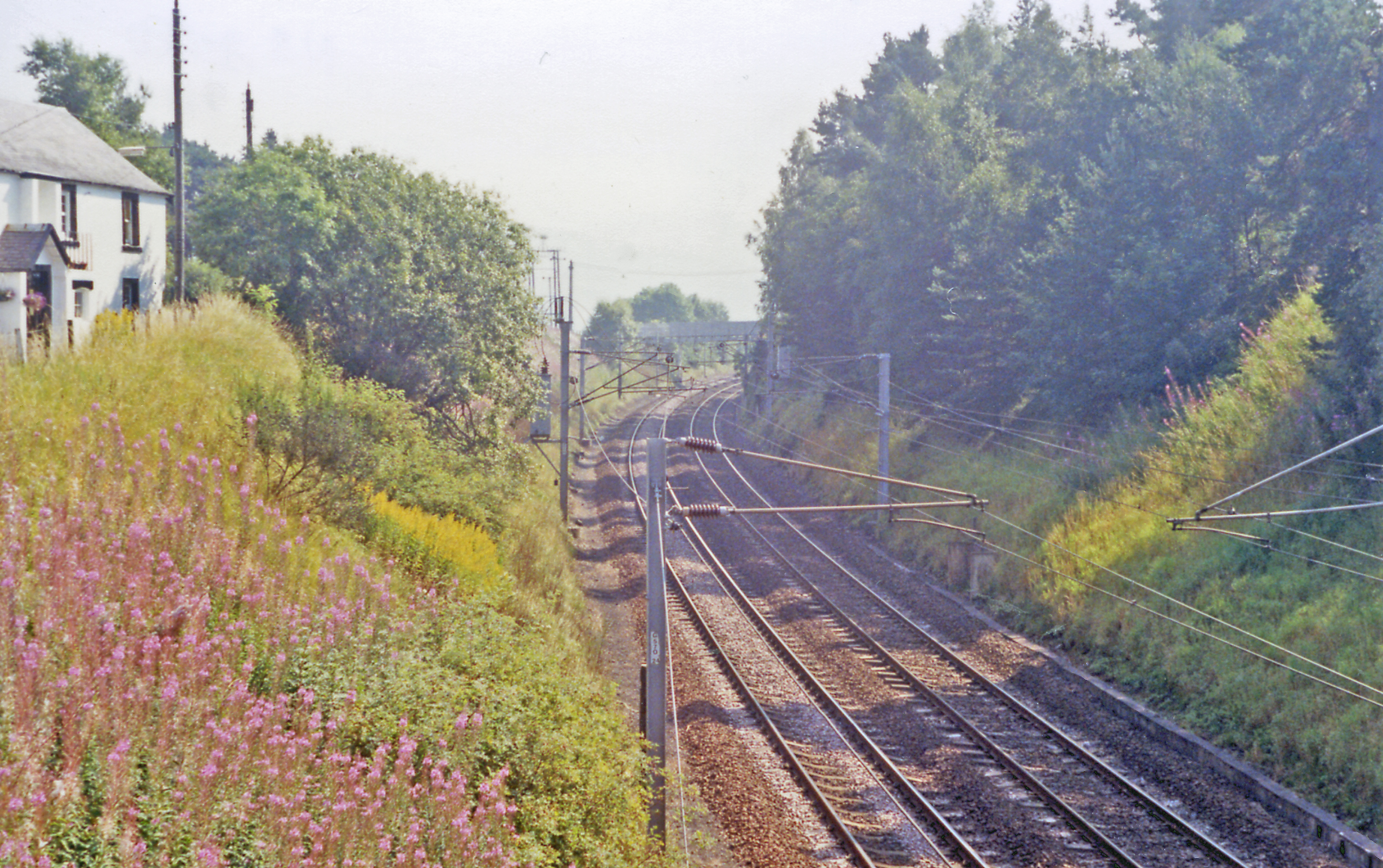 Site of Crawford station, WCML 1991. View southward, towards Beattock, Carlisle and the South: ex-Caledonian West Coast Main Line, electrified 1974. The station was closed 4/1/65.